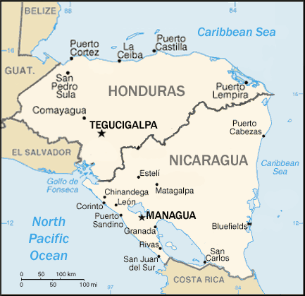 Honduras-CIA WFB Map and Nicaragua-CIA WFB Map combined.